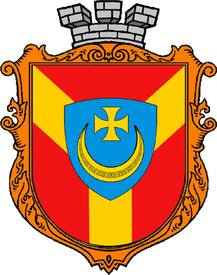 Coat of Arms of Nemyriv (Vinitsa region, Ukraine)